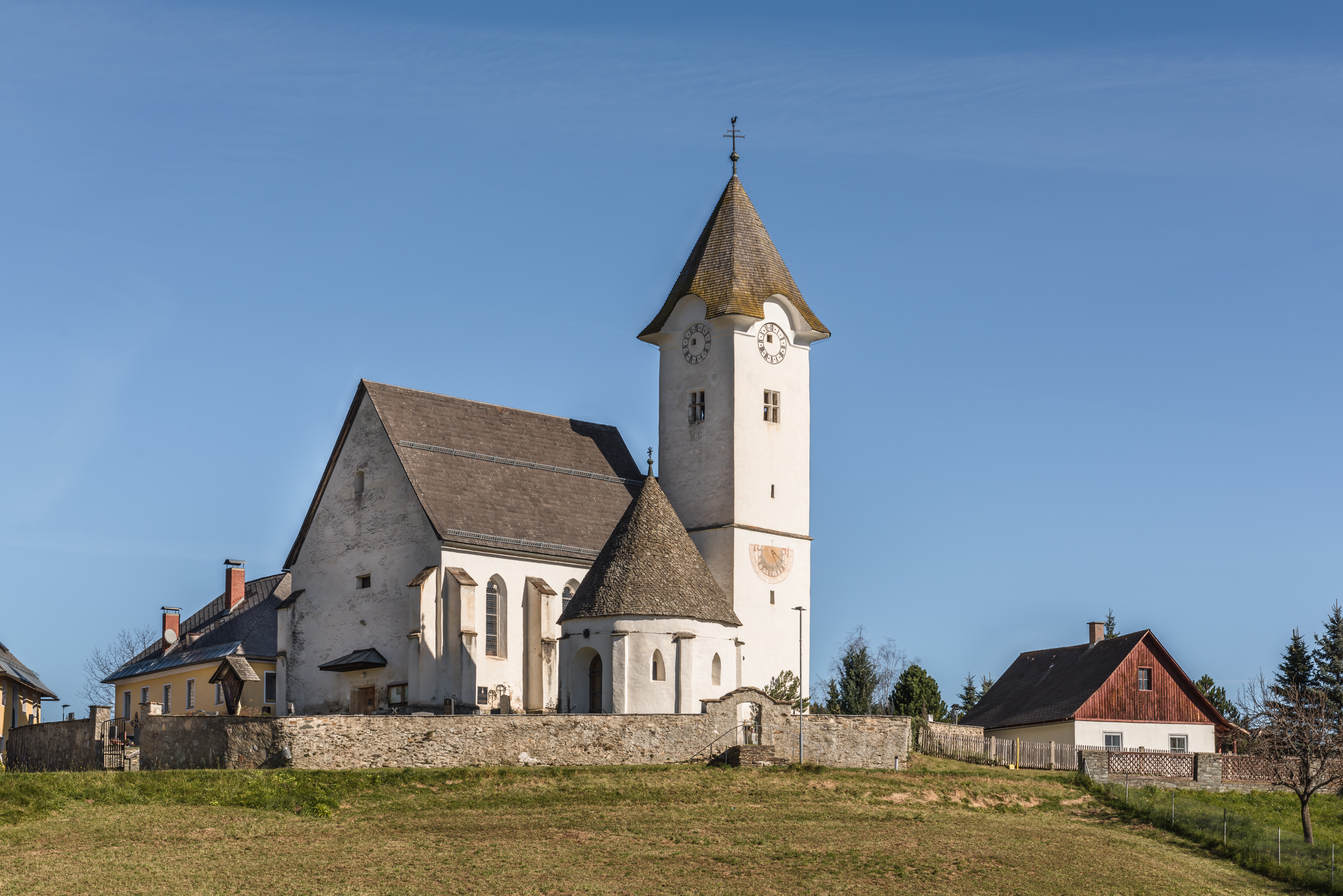 Parish church Saint Lambert and charnel house in Pisweg, market town Gurk, district Sankt Veit, Carinthia, Austria, EU